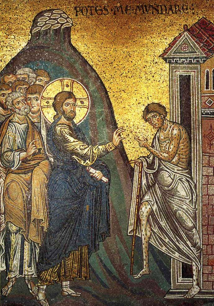 Christ cleans leper man